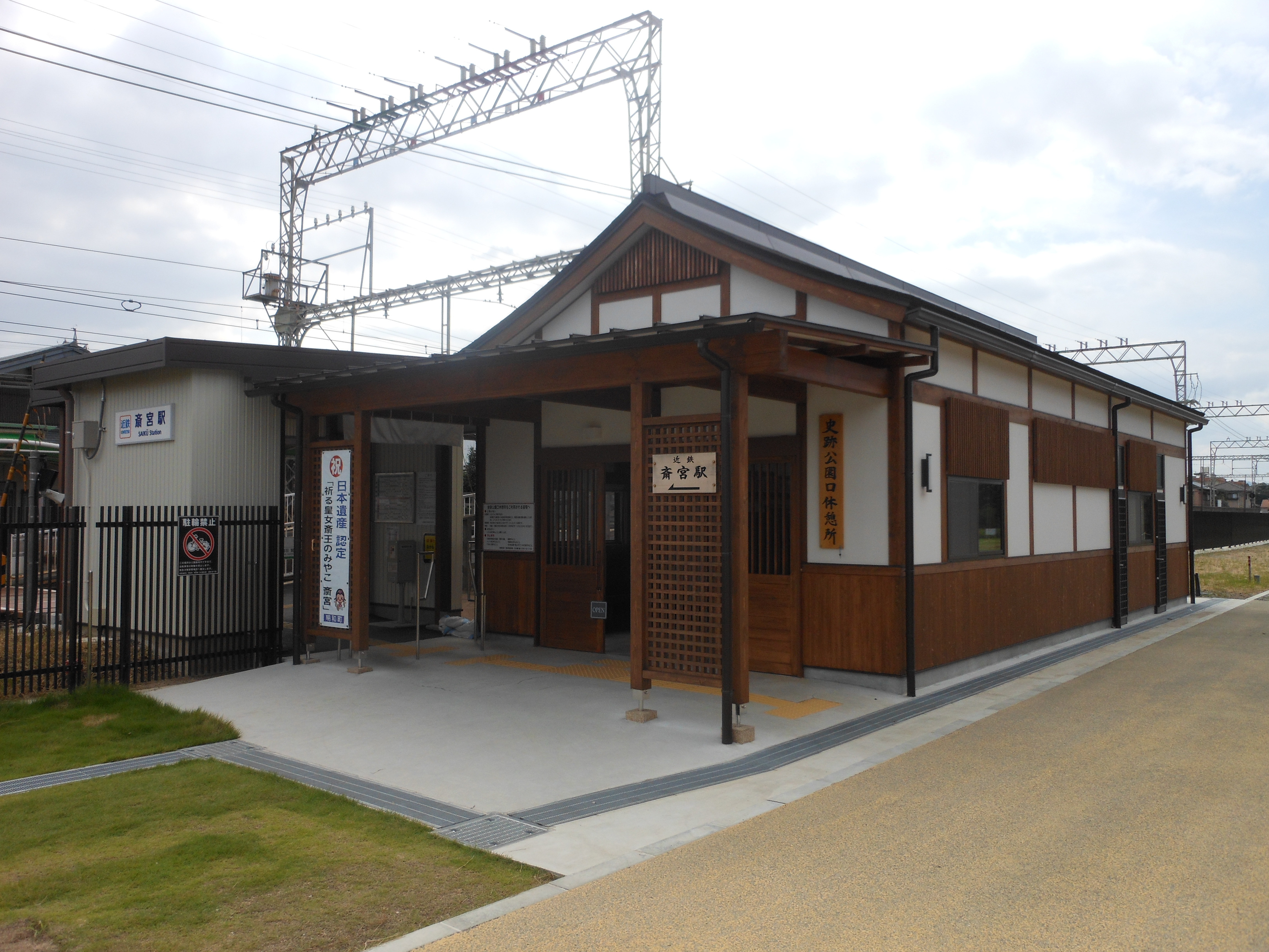 This is the Histric Site Park Entrance of Saiku station in Meiwa, Mie, Japan.